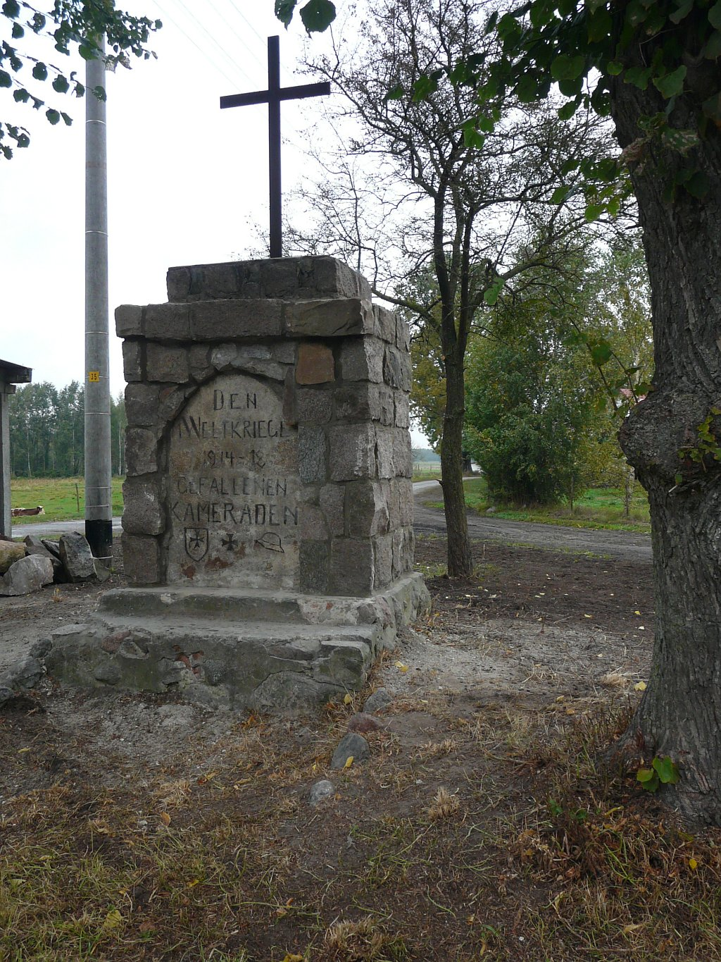 Odrestaurowany pomnik w Grzegorzach